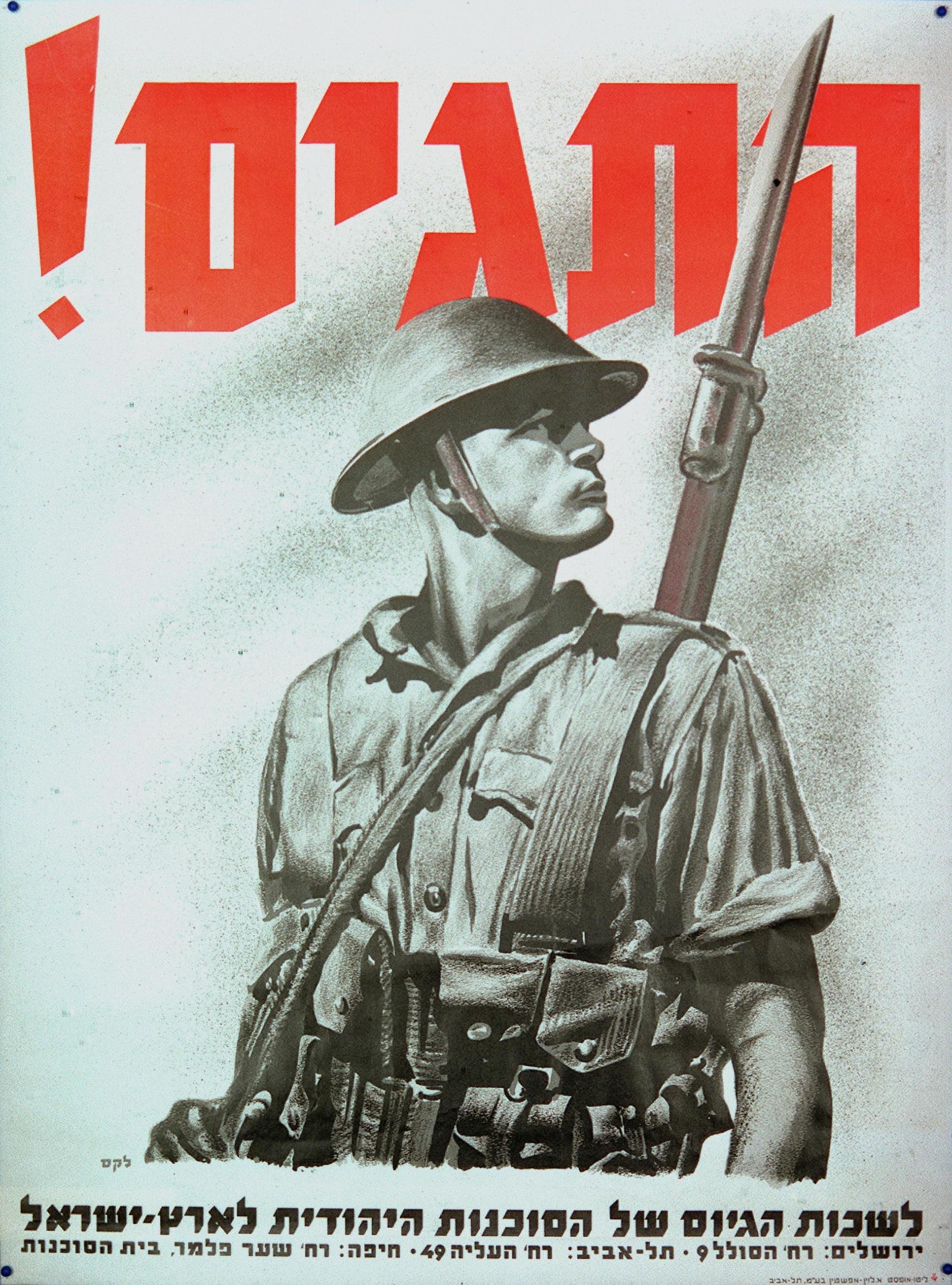 Enlisting in the Jewish Brigade in the British Army, 1944